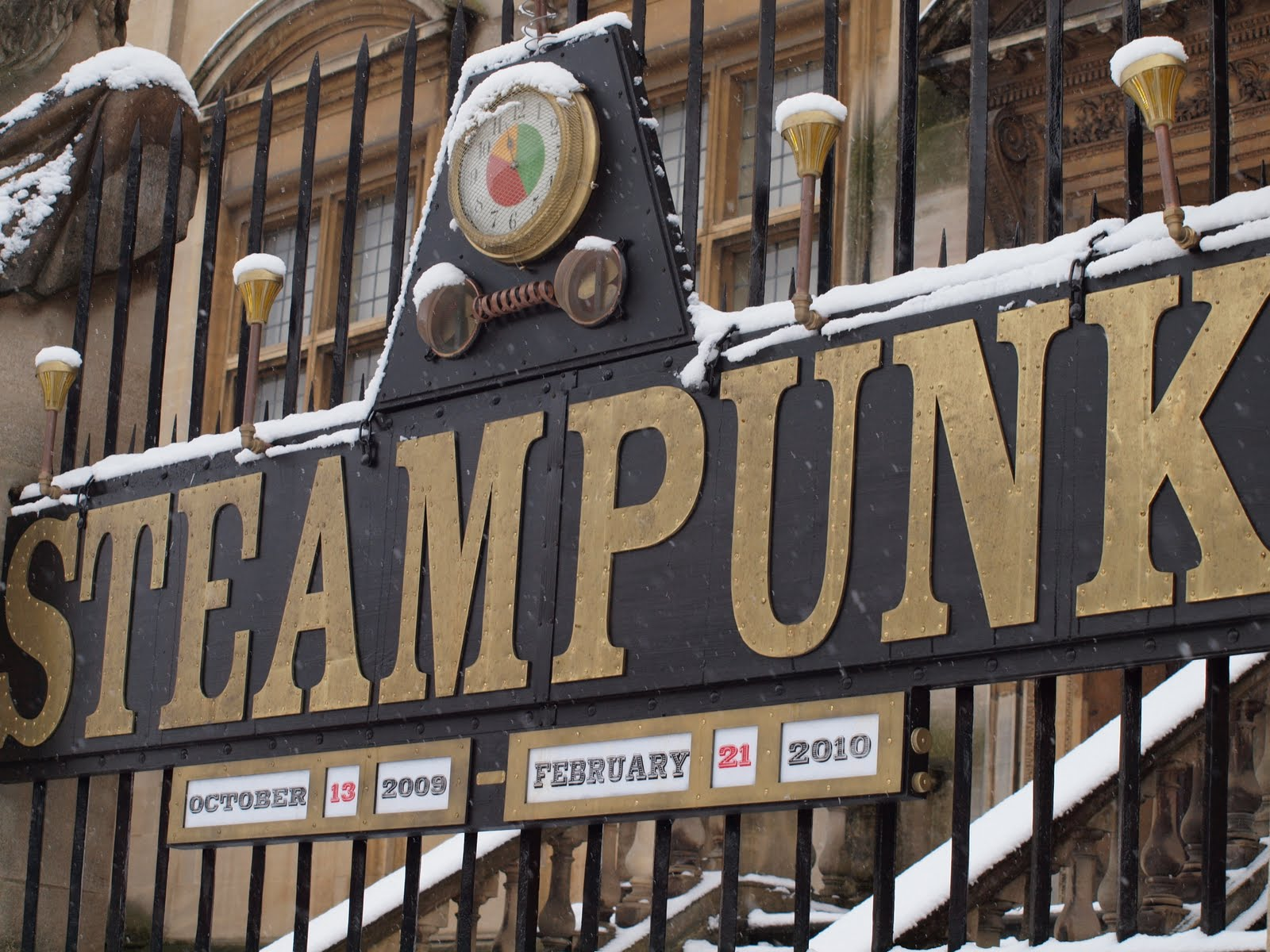 The outside sign for the exhibition of Steampunk objects in the Museum of the History of Science, Oxford